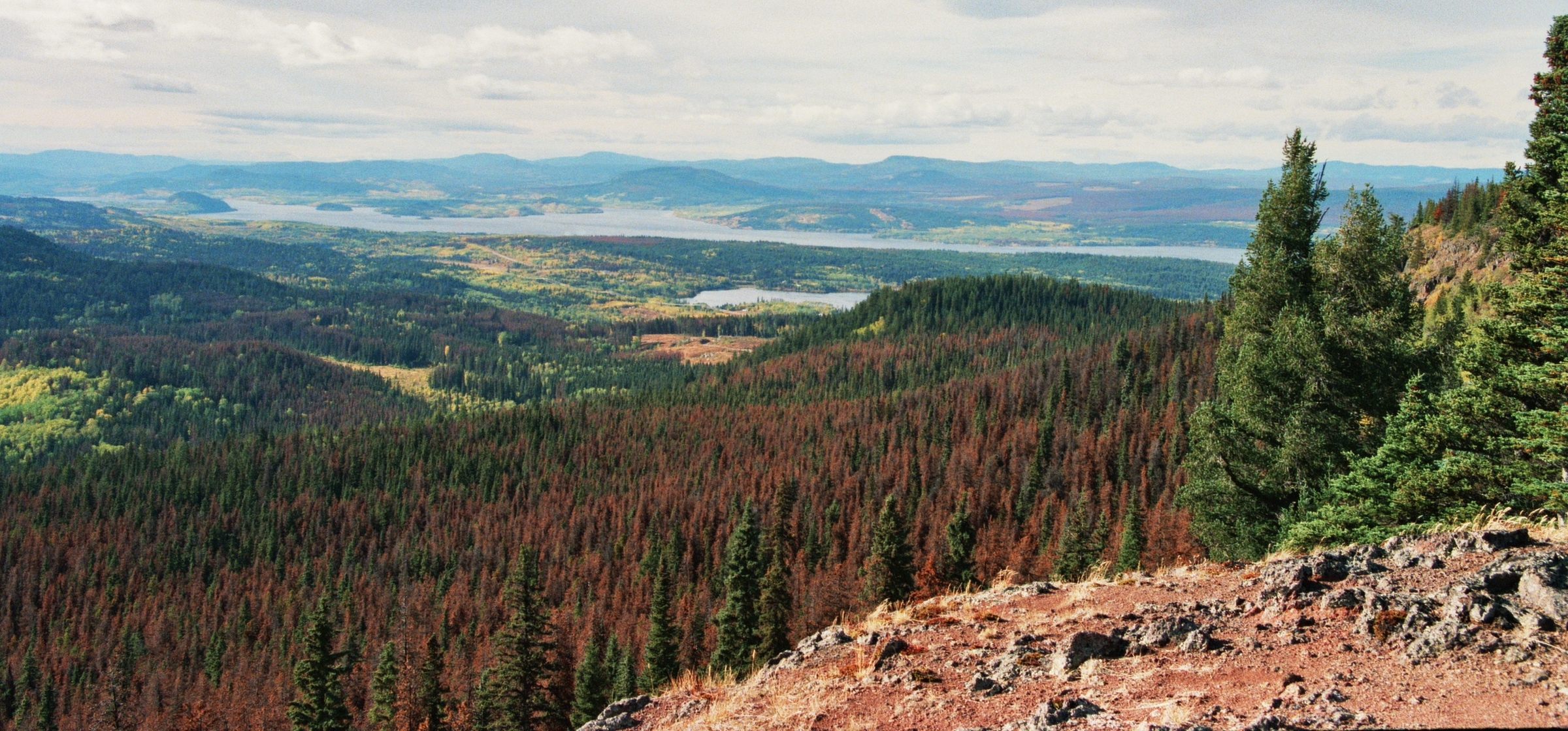 A view from Mount Fraser: Fraser Lake and Mountain Pine Beetle. Red trees are dead or dying.